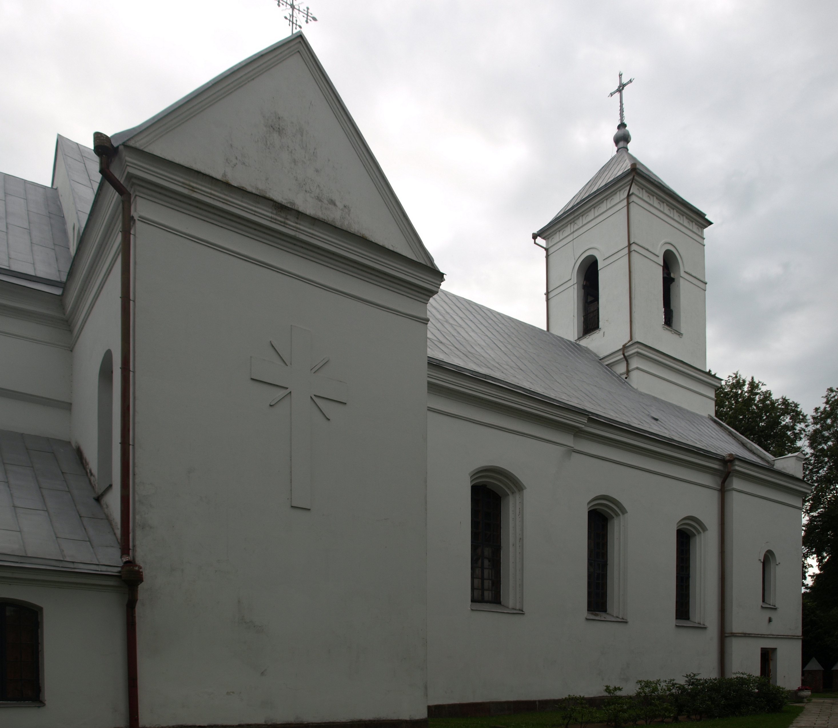 Vyžuonos church